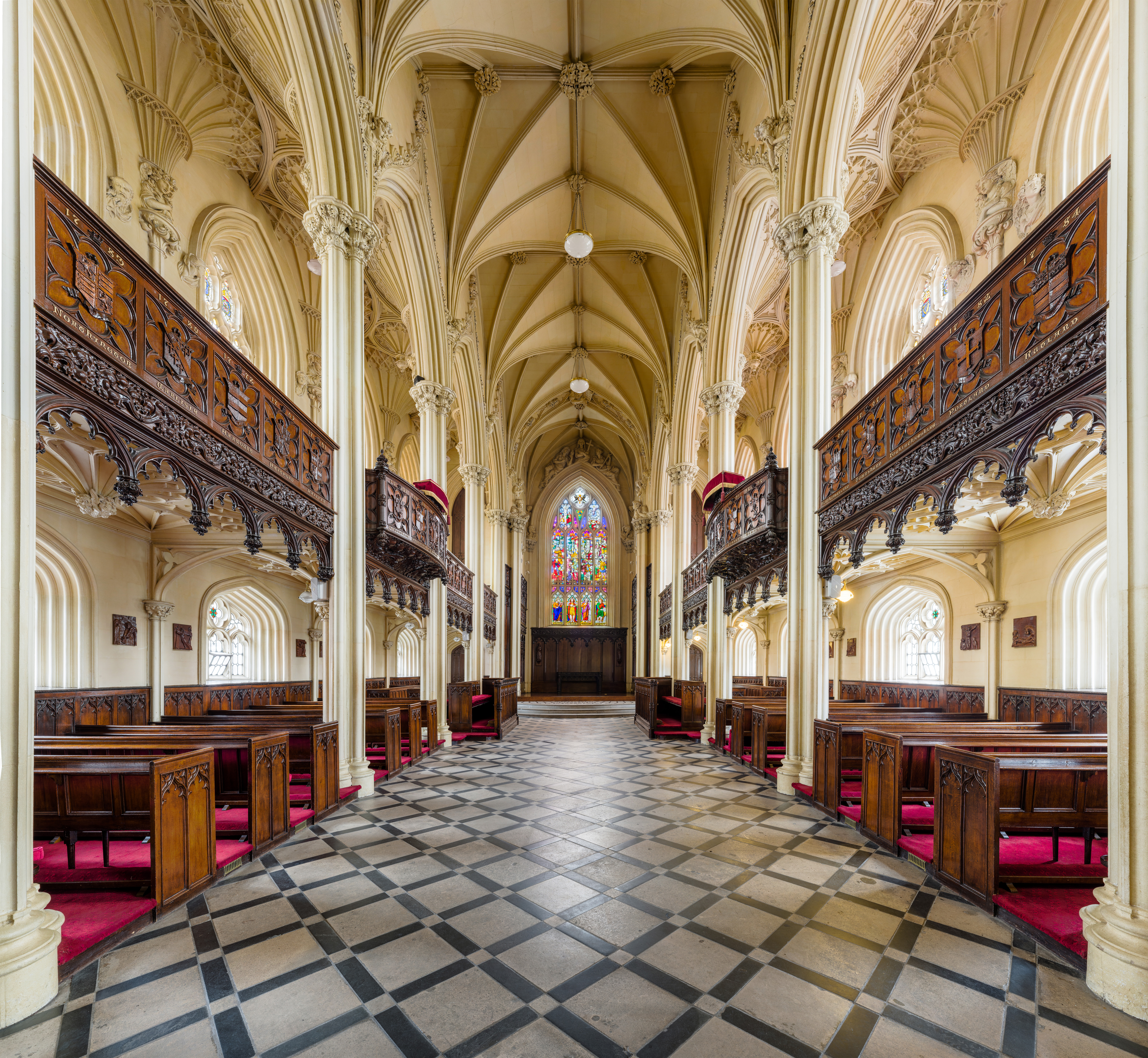 The interior of Chapel Royal looking east in Dublin Castle, Dublin, Ireland.